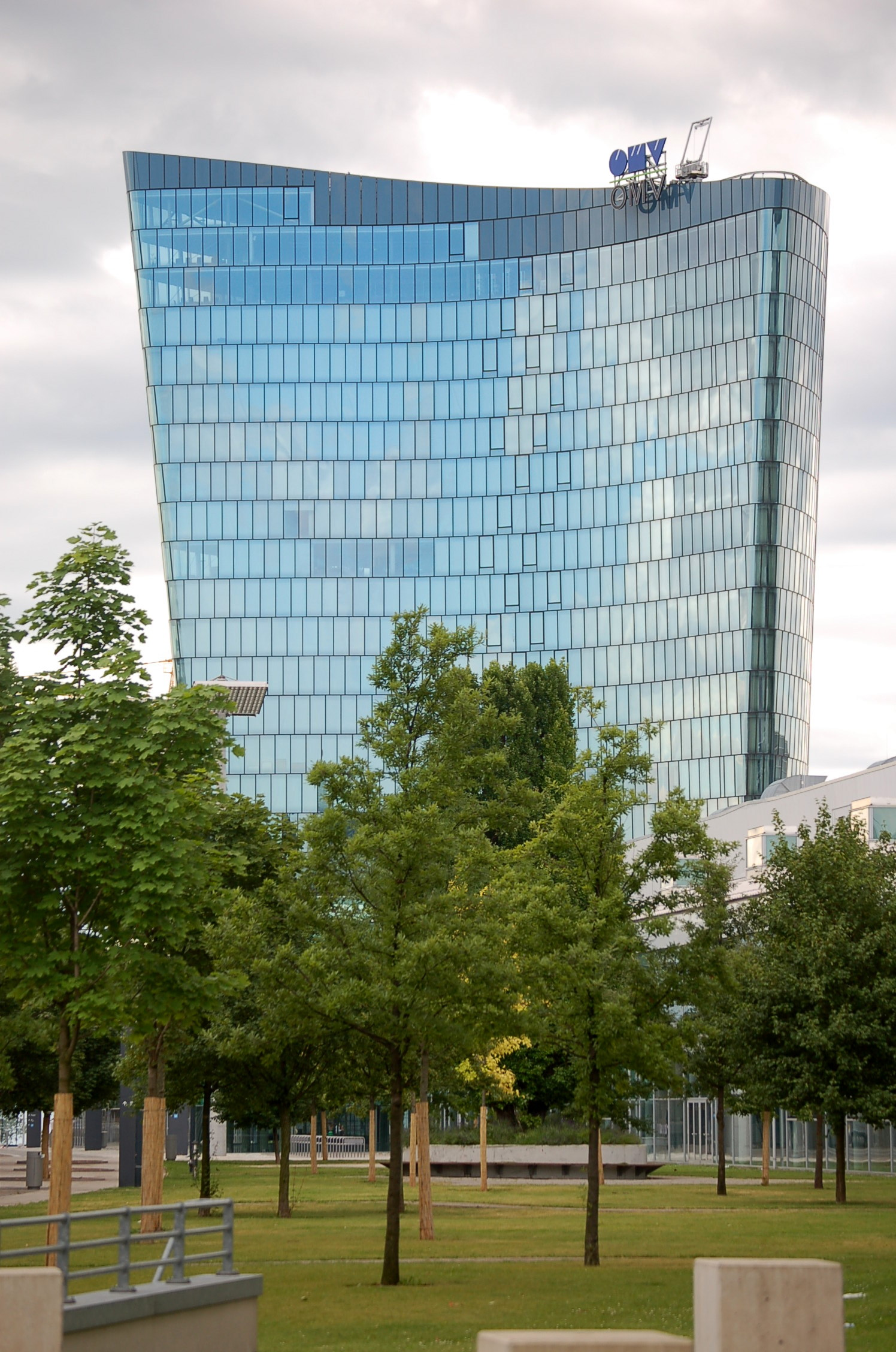 Office building of OMV AG at Trabrennstraße, Vienna's 2nd district